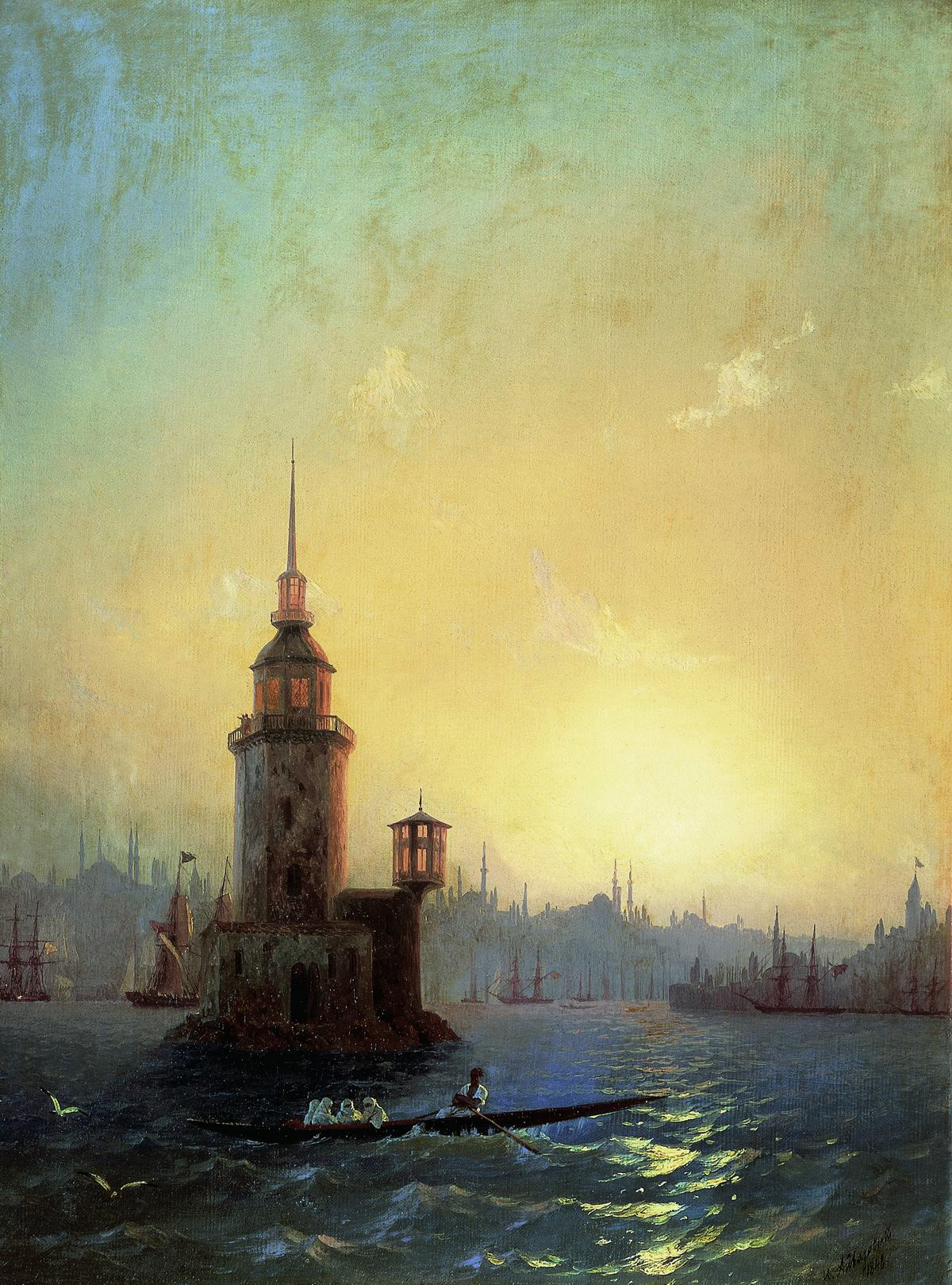 The Maiden's Tower, also known in the ancient Greek and medieval Byzantine periods as Leander's Tower (Tower of Leandros), sits on a small islet located at the southern entrance of the Bosphorus strait off the coast of Üsküdar in Istanbul, Turkey.